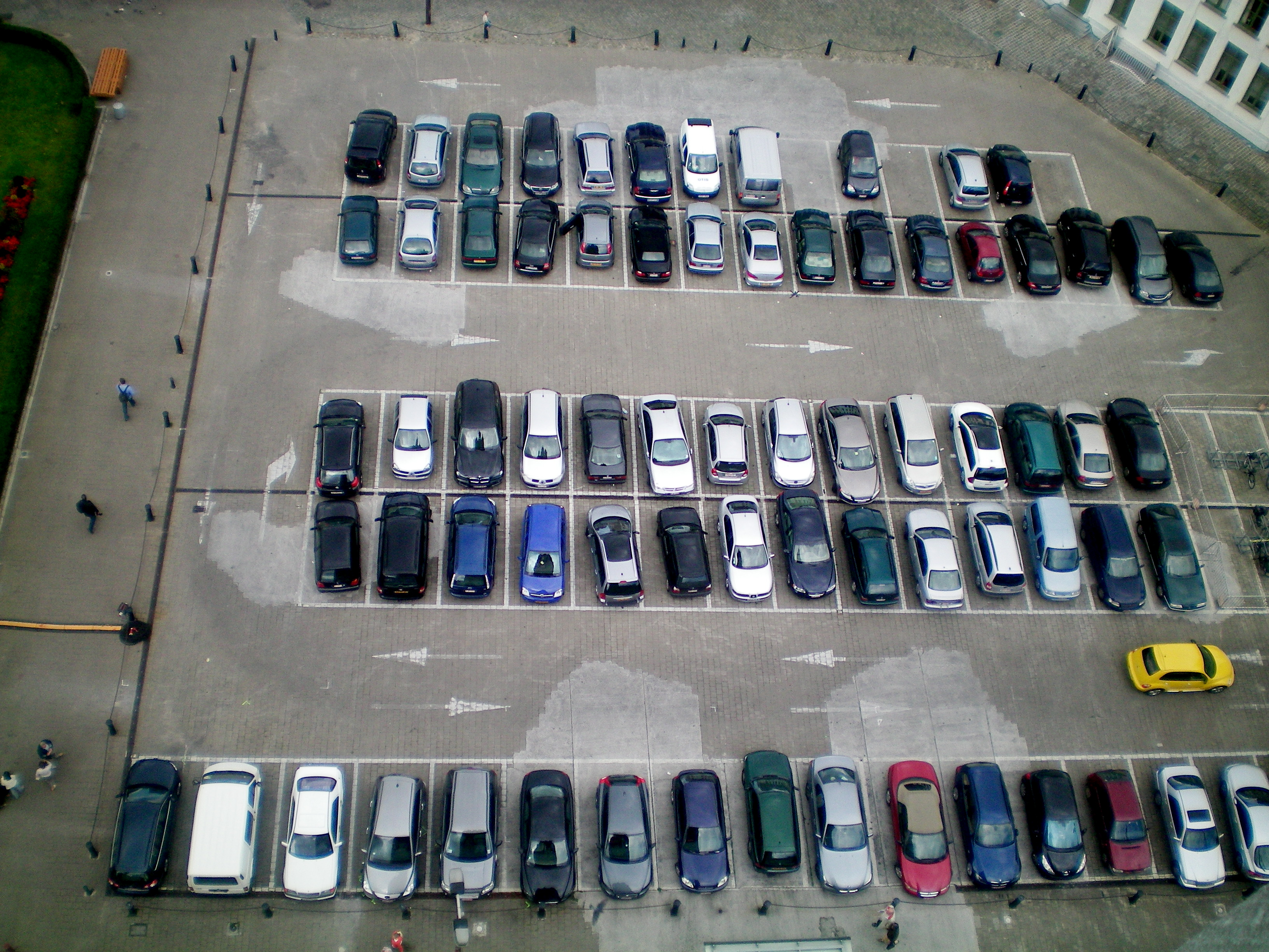 A car park from above.